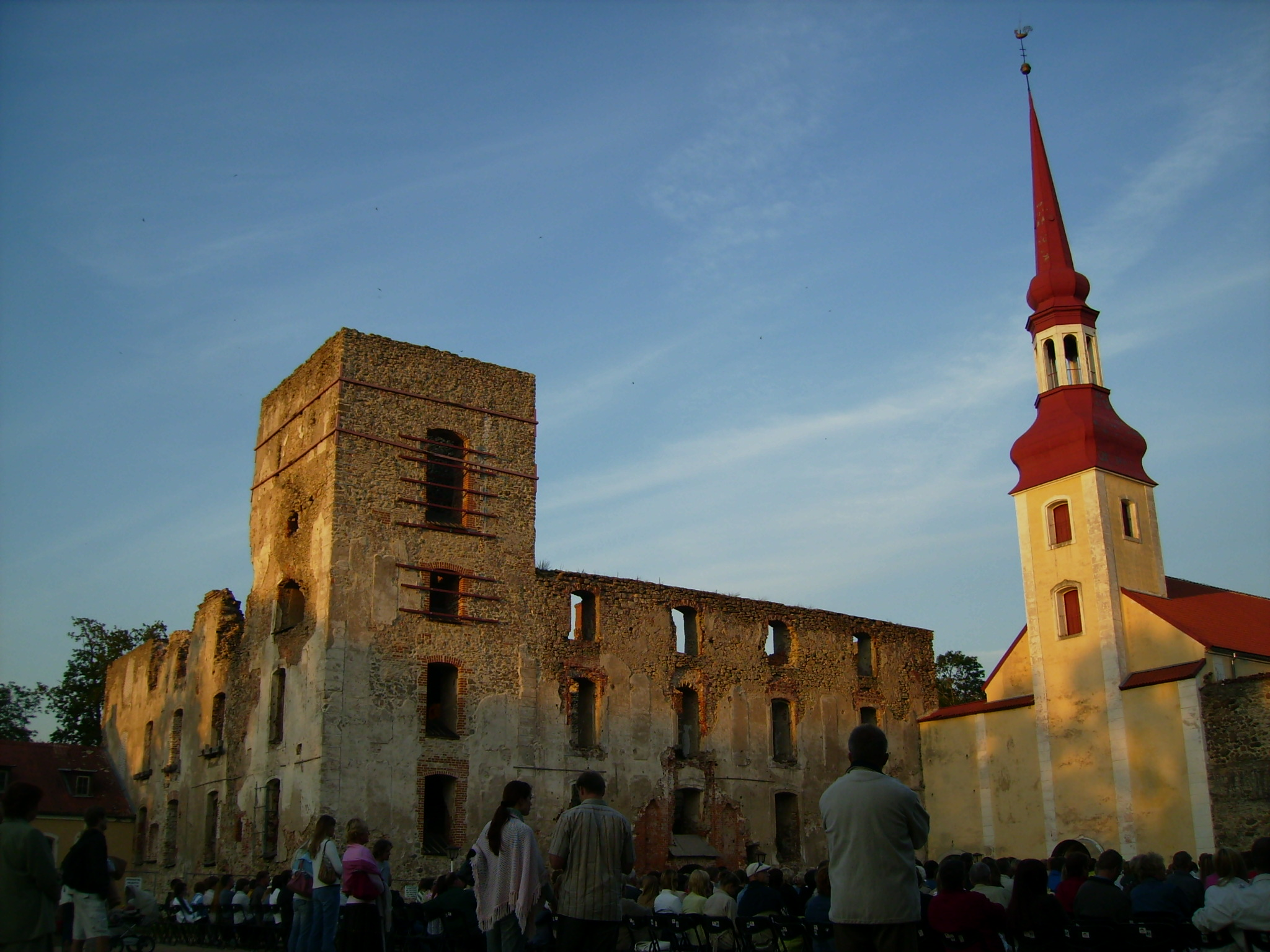 Põltsamaa linnuse varemed (foto paremas servas Põltsamaa kirik). Asukoht: Lossi tn 1, Põltsamaa linn, Jõgeva maakond.